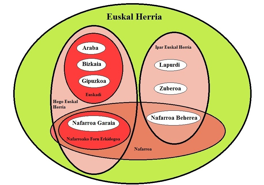 Euler diagram of the Basque Country